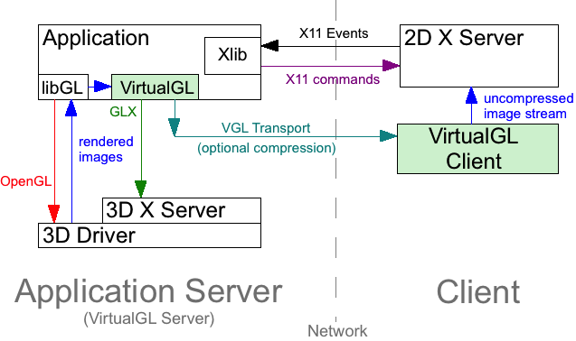 Scheme regarding the software architecture of VirtualGL. Illustrates VirtualGL Image Transport.